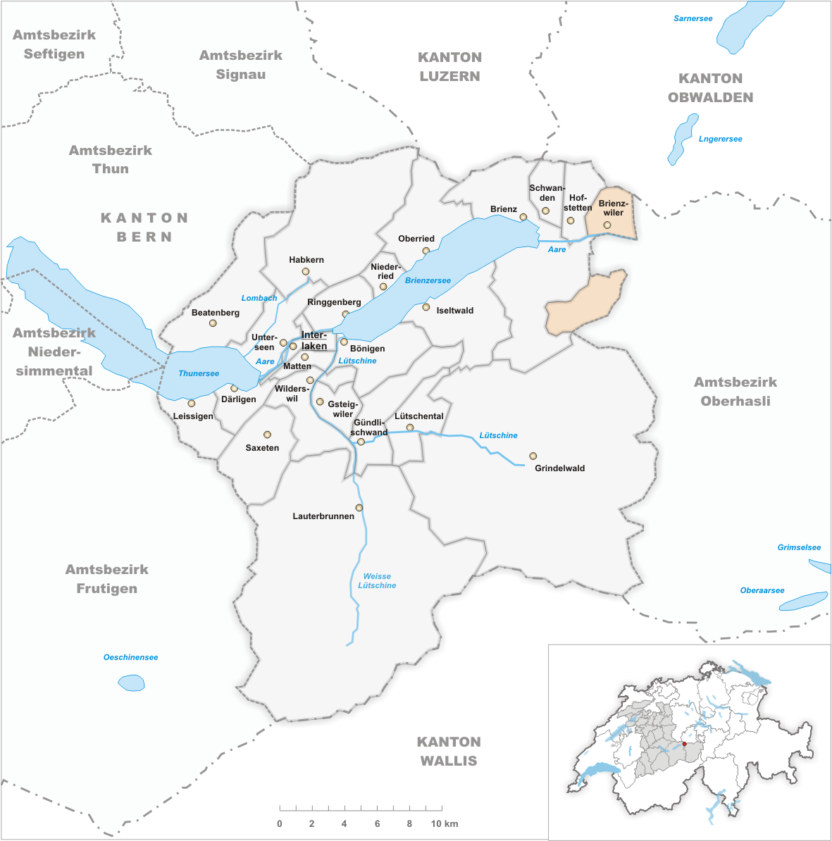 Municipality Brienzwiler